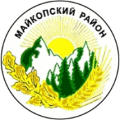 Coat of arms of Maikopski Raion, Adygeaa, Russia.